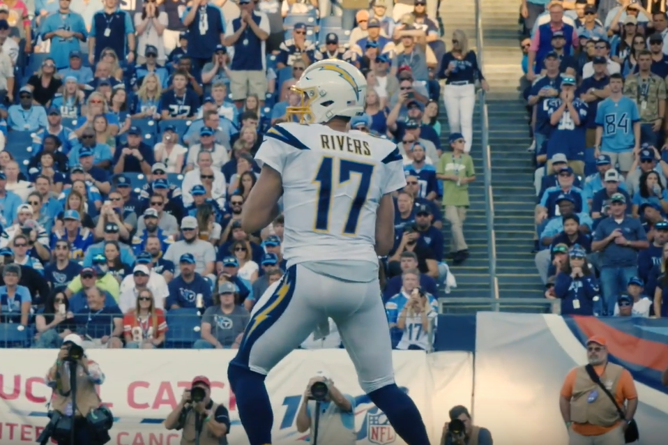 Philip Rivers 2019. Image from video There’s Nothing Like Being Here: Titans vs. Bucs Sunday at Nissan Stadium, ~ 01:02.